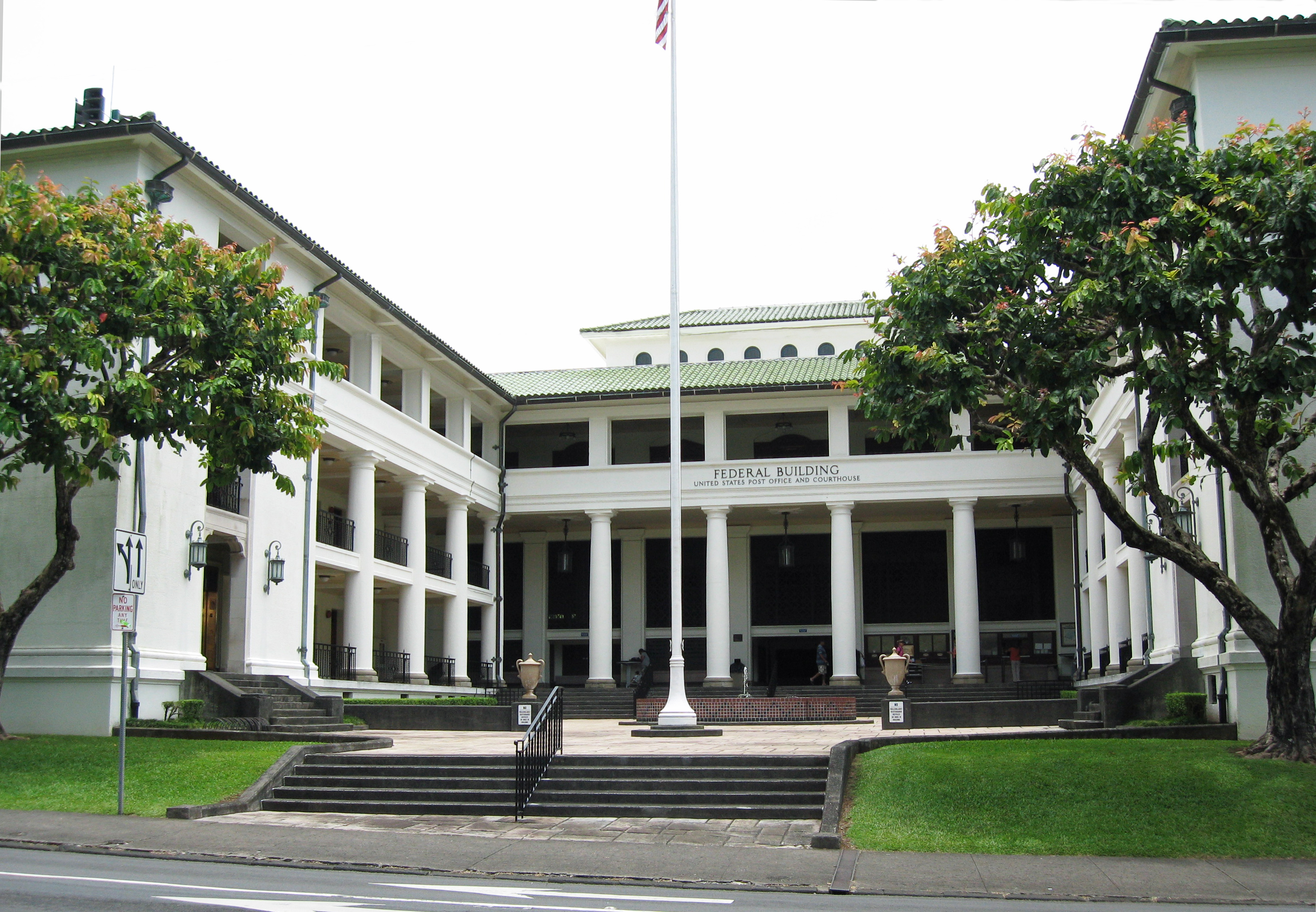 U.S. Post Office and Federal Office Building in Hilo, on the Big island of Hawaiʻi. Listed on the National Register of Historic Places.